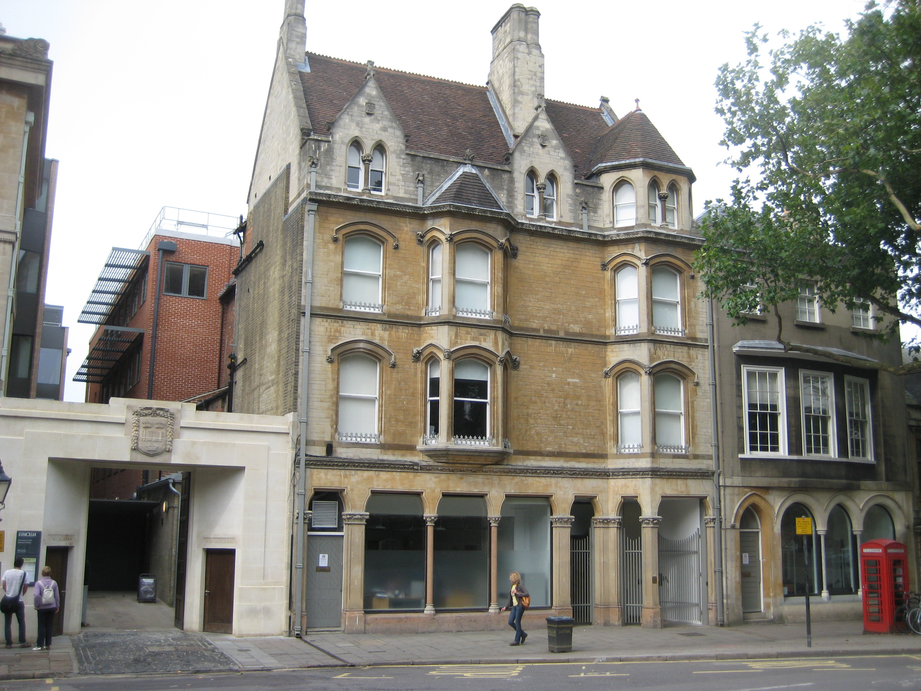 View from St Giles', Oxford of restored frontages and new building behind. Opened in 2007 and designed by van Heyningen and Haward Architects.